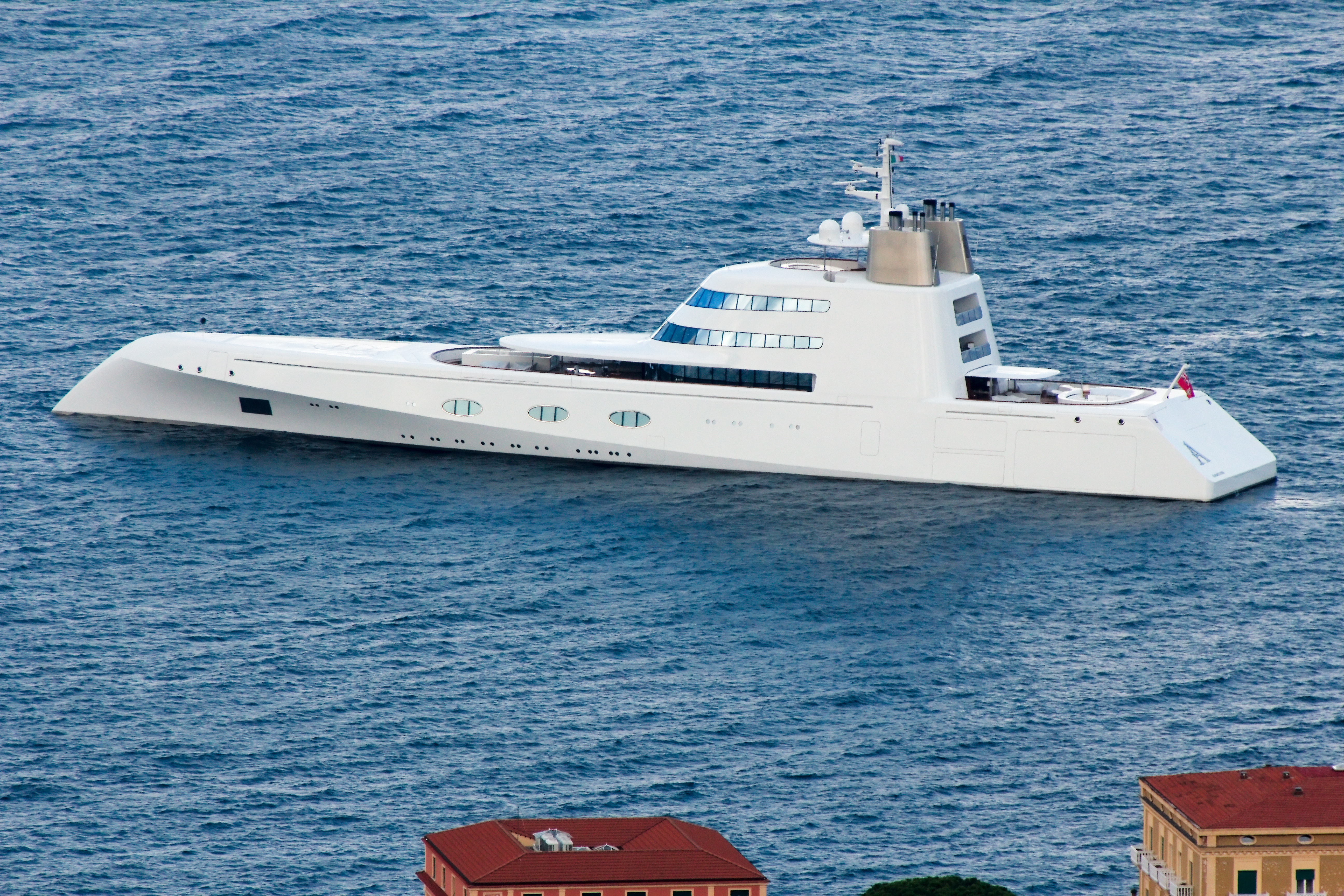 The ship A photographed in front of Sorrent in 2012